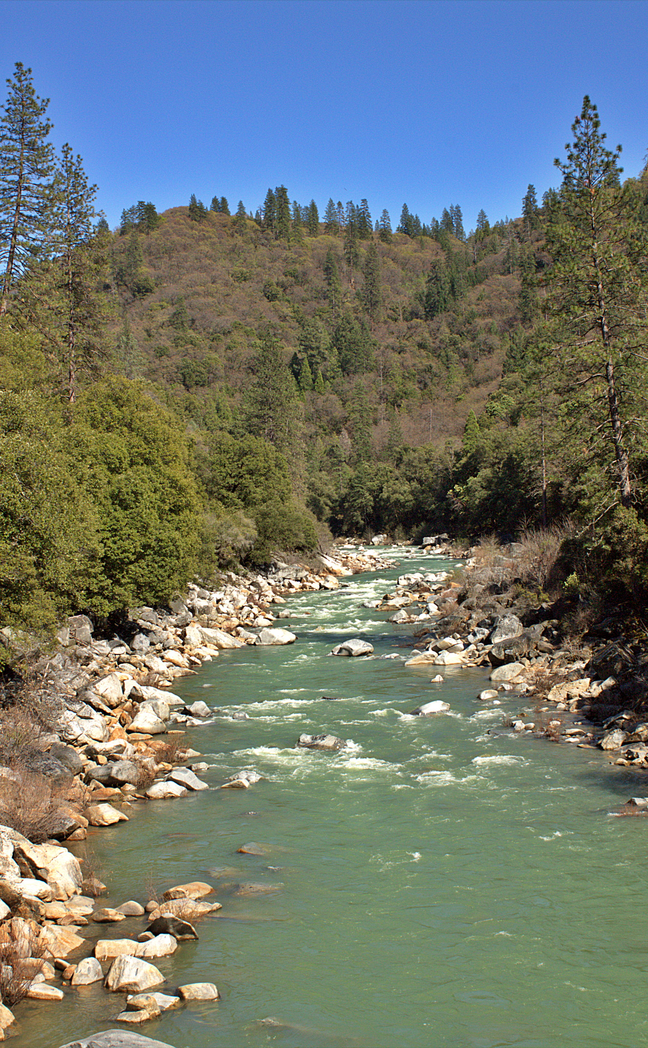 Yuba River — near Purdon Crossing in the Sierra Nevada, California.